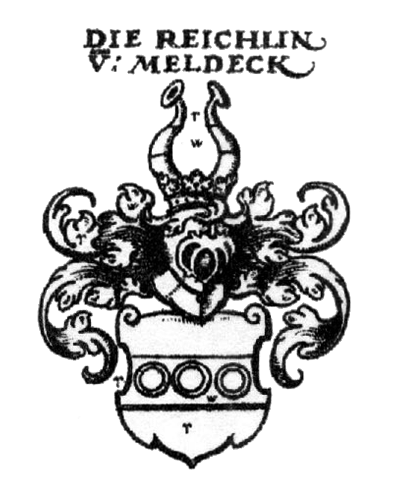 Coats of Arms of Reichlin von Meldeck